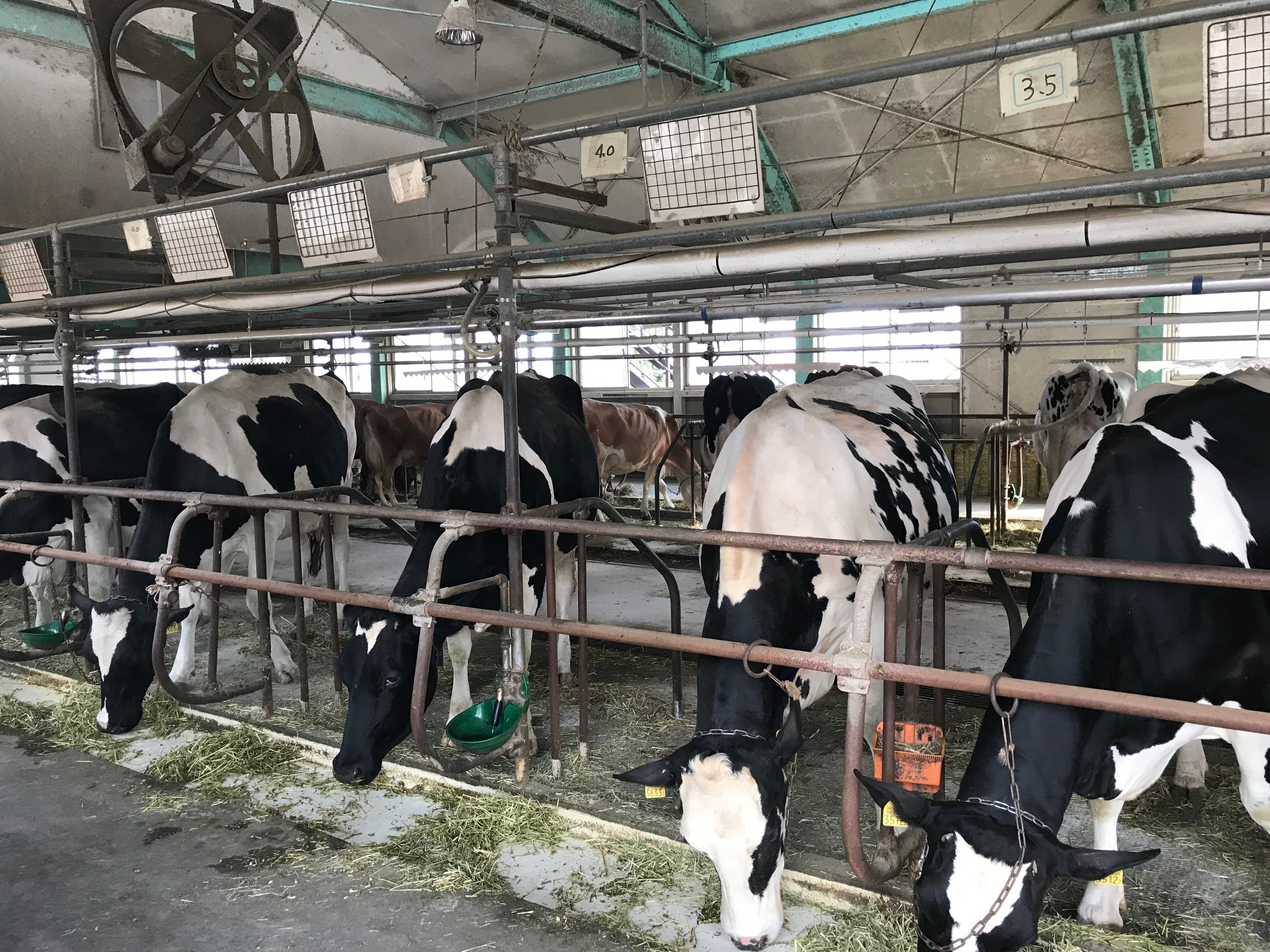 mother farm